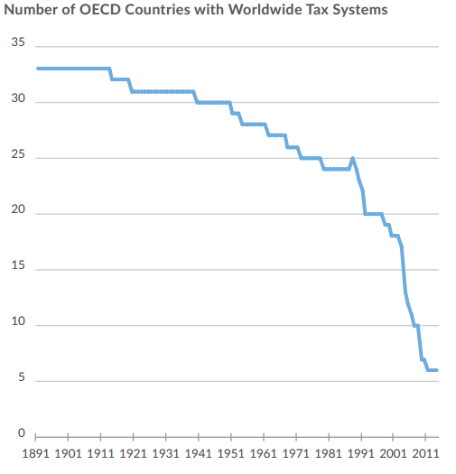 Reproduction of the tax foundation data into the number of OECD countries with "worldwide tax systems" since 1891